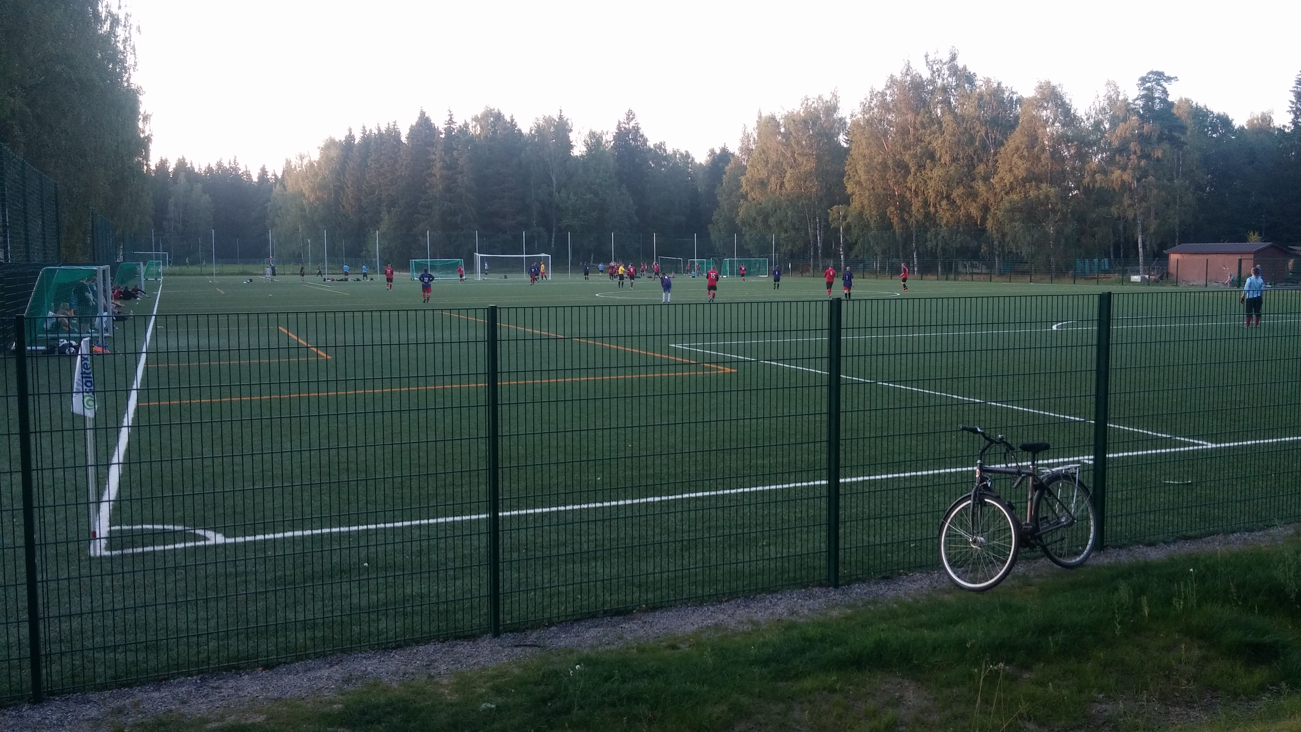 Pirkkolan liikuntapuisto is a sports venue in Helsinki